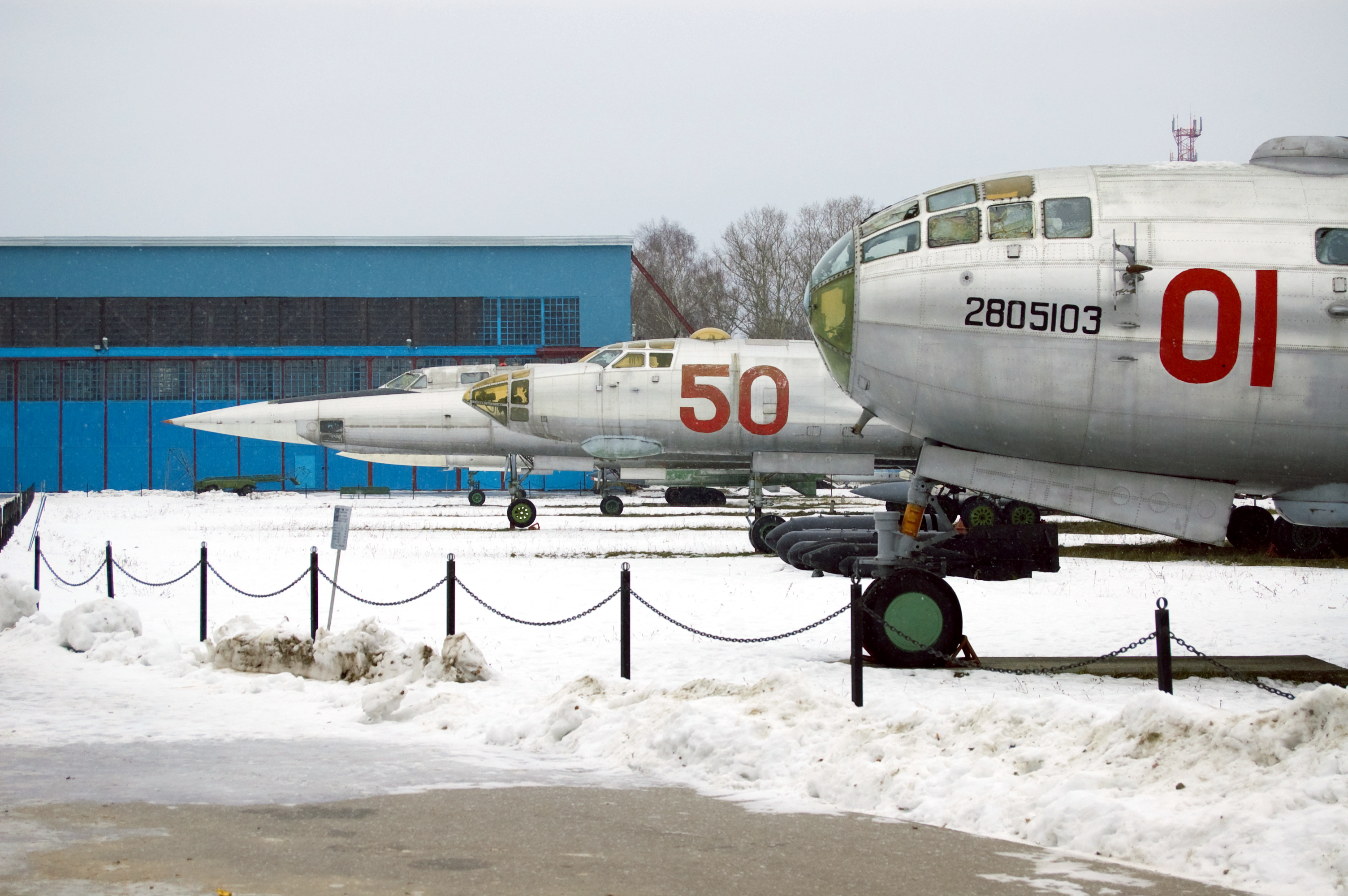 Bombers Tu-4, Tu-16 and Tu-22 in Monino.